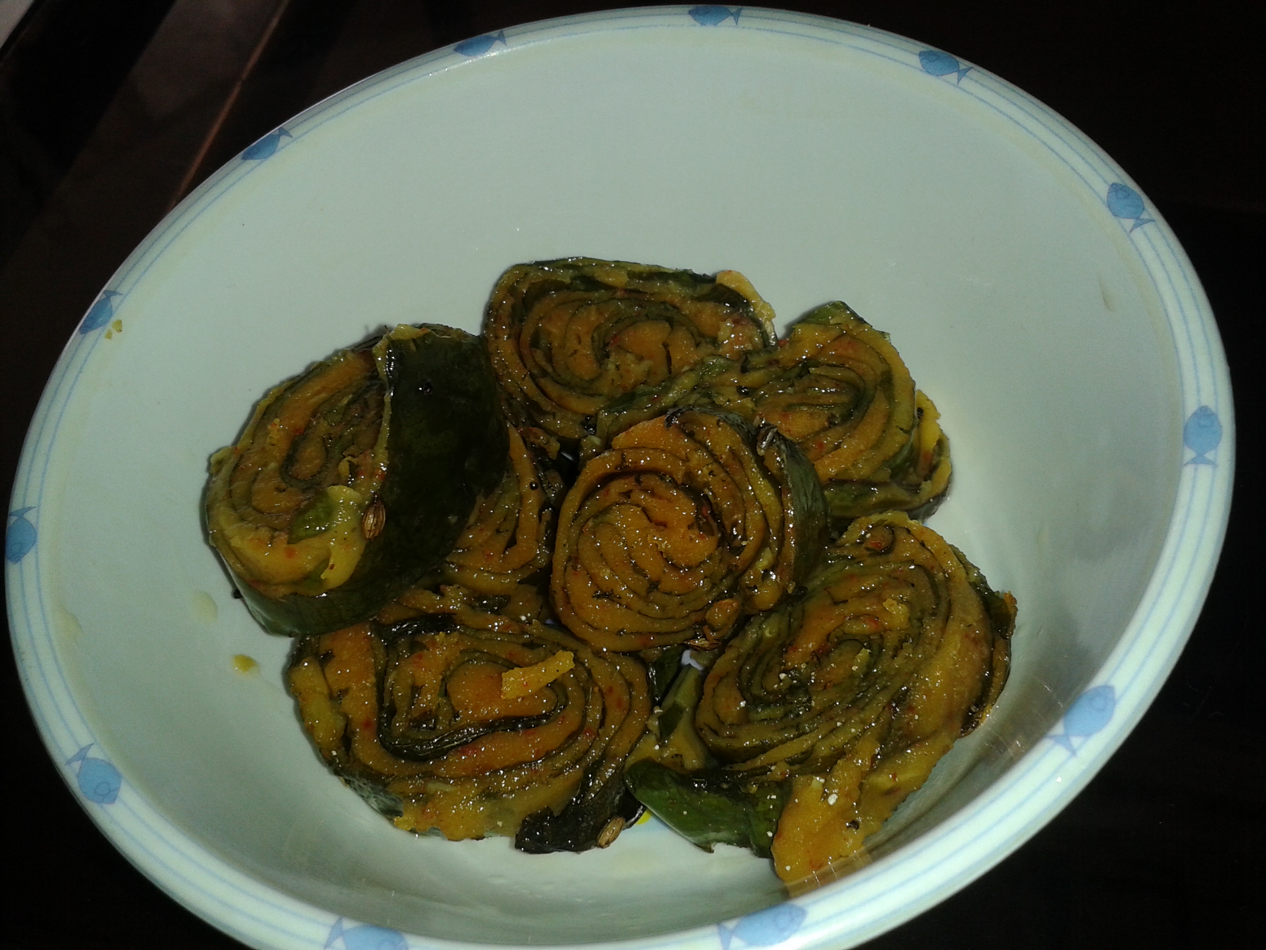 Patra is a spicy Gujarati snack made from patarveli leaves (taro leaves).